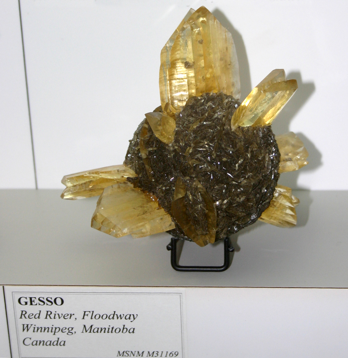 The National history museum in Milan, Italy. Gypsum crystals. Picture by Giovanni Dall'Orto, April 22 2007.